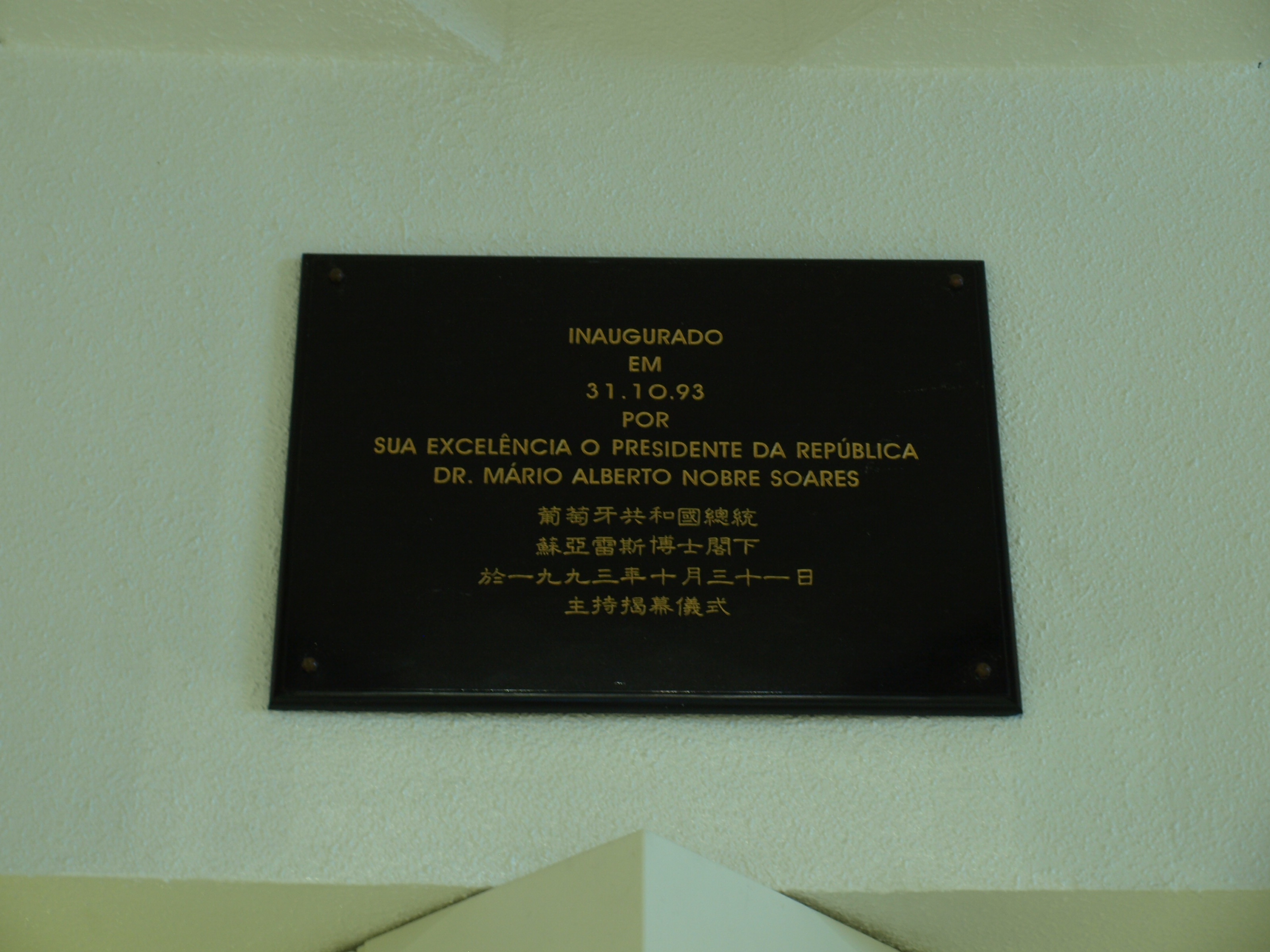 Completed monument of Macau Outer Harbour Ferry Terminal